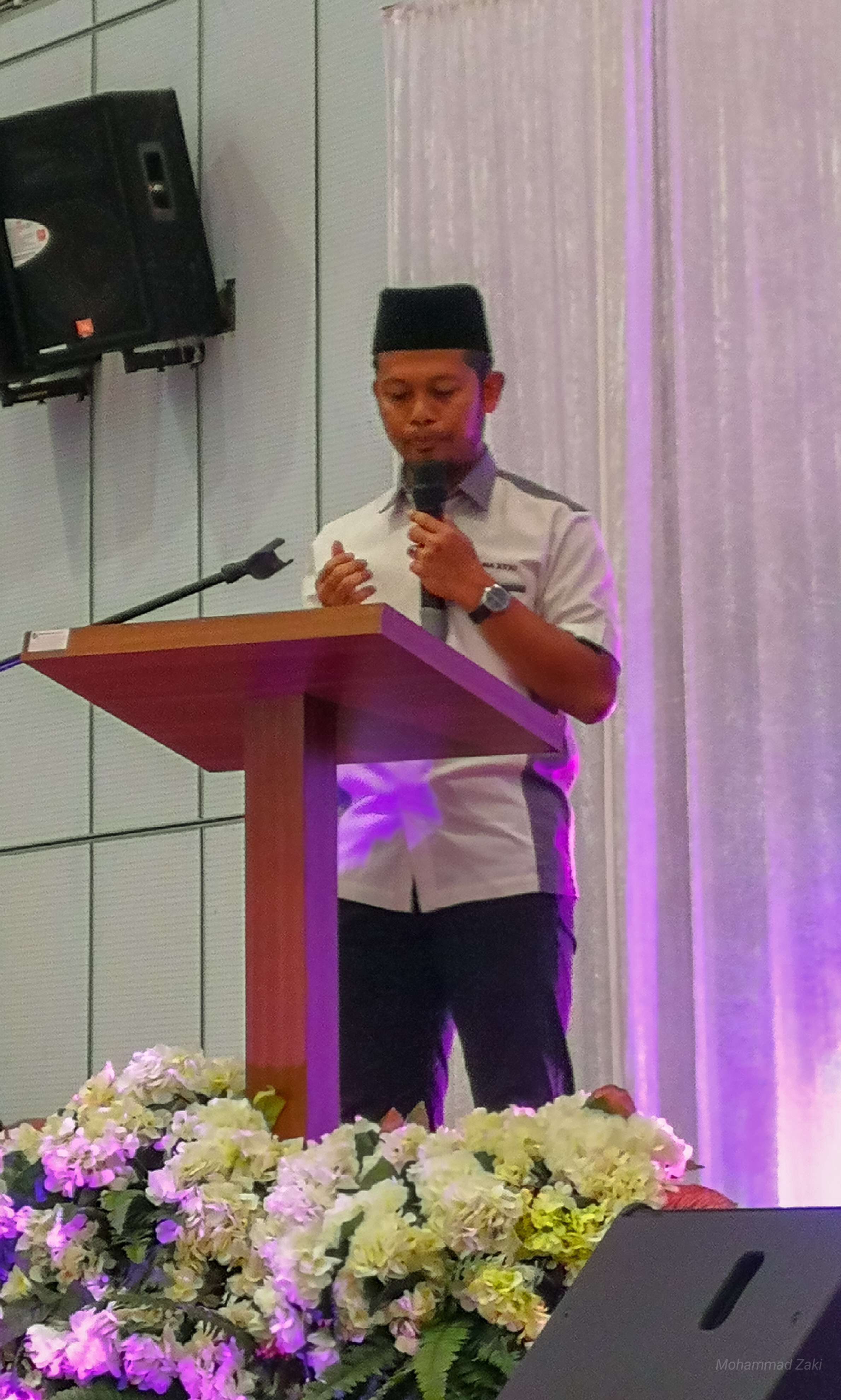 Pesuma32 Tahlil Semasa Penutup